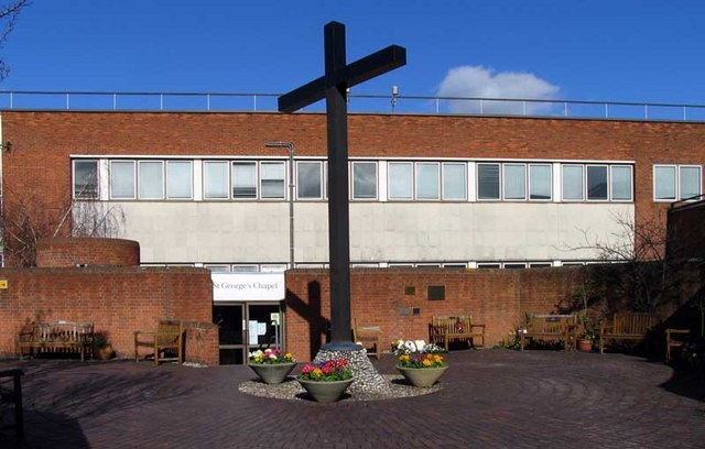 St George's Chapel, Heathrow Airport, Middlesex TW6 1BP